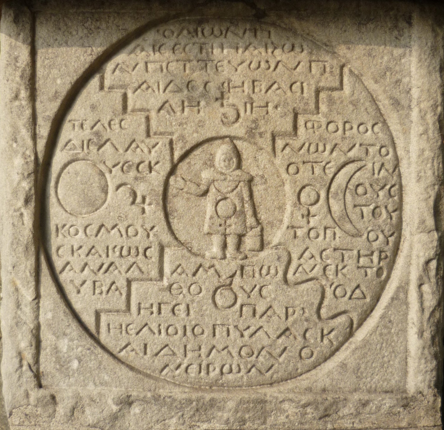 photograph of Greek inscription at the Bollingen "Tower" of C.G. Jung; the inscription itself dates to 1950. The central figure is Homunculus-Mercurius-Telesphorus, wearing a hooded cape and carrying a lantern. He is surrounded by a quaternary Mandala of alchemical significance, with the top quarter dedicated to Saturnus, the bottom quarter to Mars, the left quarter to Sol-Jupiter ("male") and the right quarter to Luna-Venus ("female"). The Greek inscription translates to approximately: "Aion (Time, Eternity, the Eon) is a child at play, gambling; a child's is the kingship. Telesphorus ("the Accomplisher") traverses the dark places of the world, like a star flashing from the deep, leading the way to the Gates of the Sun and the Land of Dreams" Time is a child at play, gambling; a child's is the kingship is a fragment attributed to Heraclitus. to the Gates of the Sun and the Land of Dreams is a quote of the Odyssey (24.11), referring to Hermes the psychopomp leading the spirits of the slain suitors away.